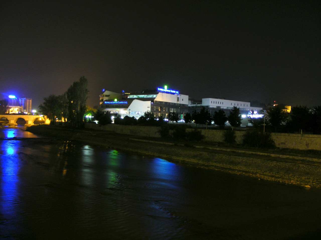 The main building of Komercijalna banka (Комерцијална банка) in Skopje, near the Stone Bridge, at night.